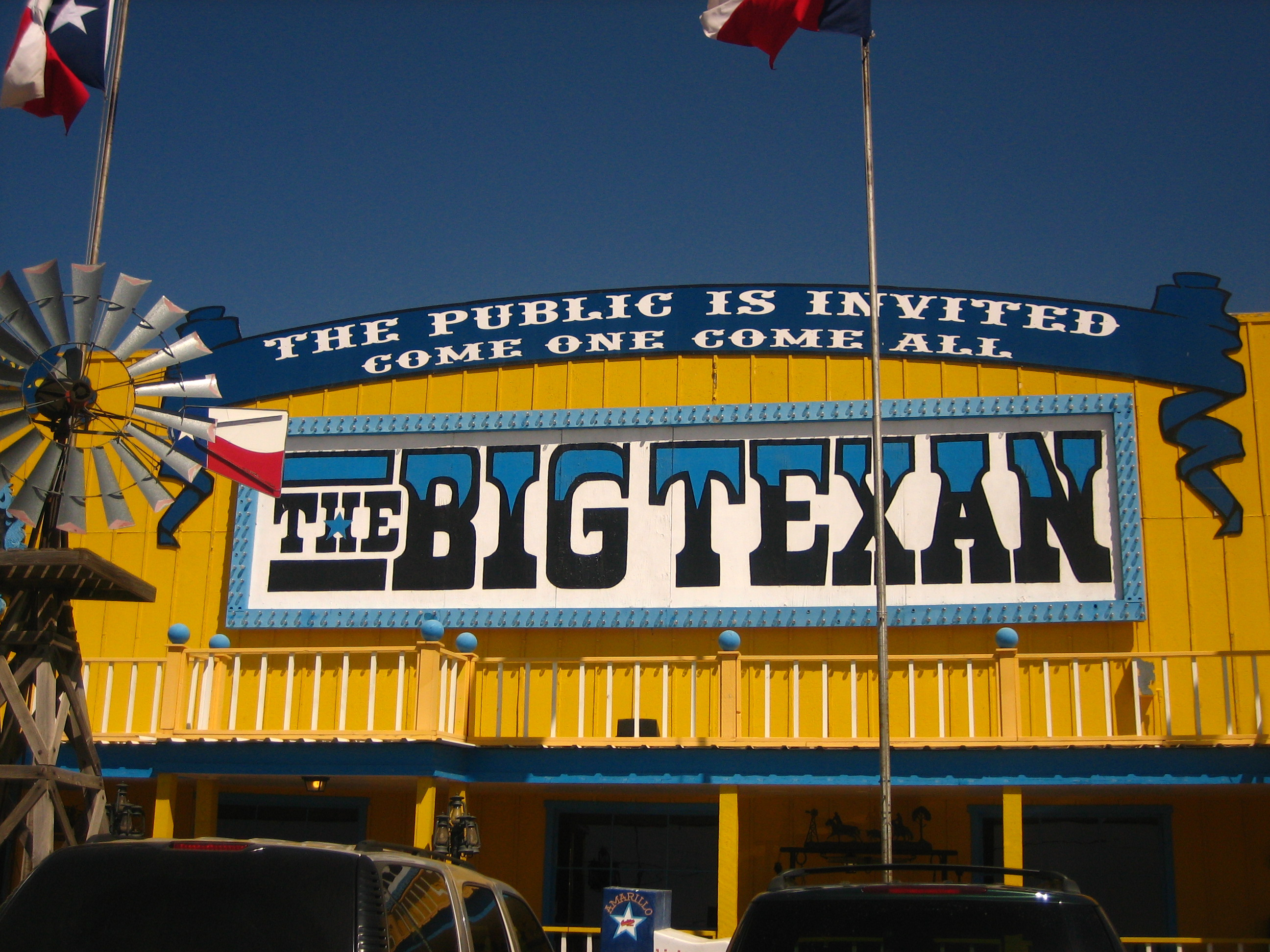 I took photo on April 6, 2008/Billy Hathorn (talk) 00:15, 29 June 2008 (UTC)